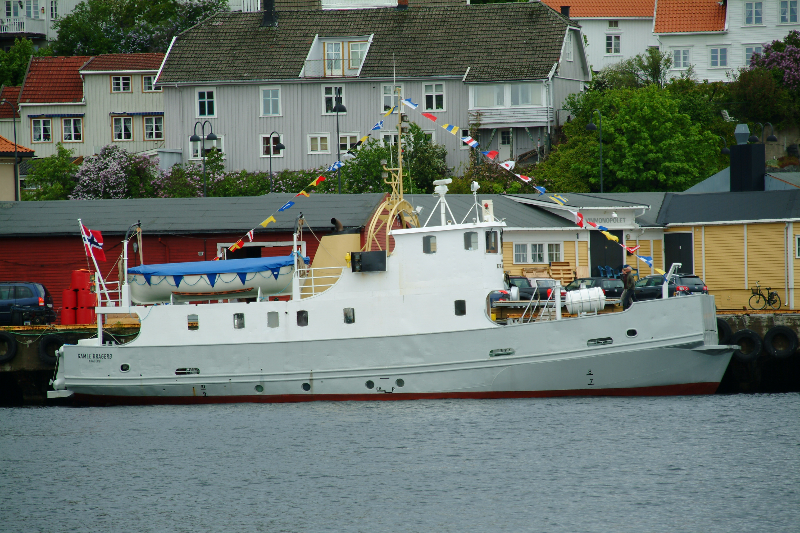 BF "Gamle Kragerø" til kai i Kragerø på 50-års dagen 28. mai 2010